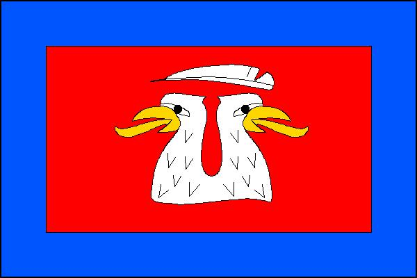 Municipal flag of Malé Březno village, Most District, Czech Republic.